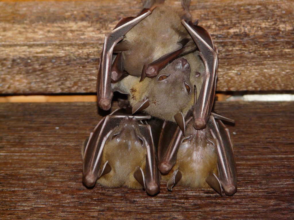 Cynopterus brachyotis at Singapore Zoo